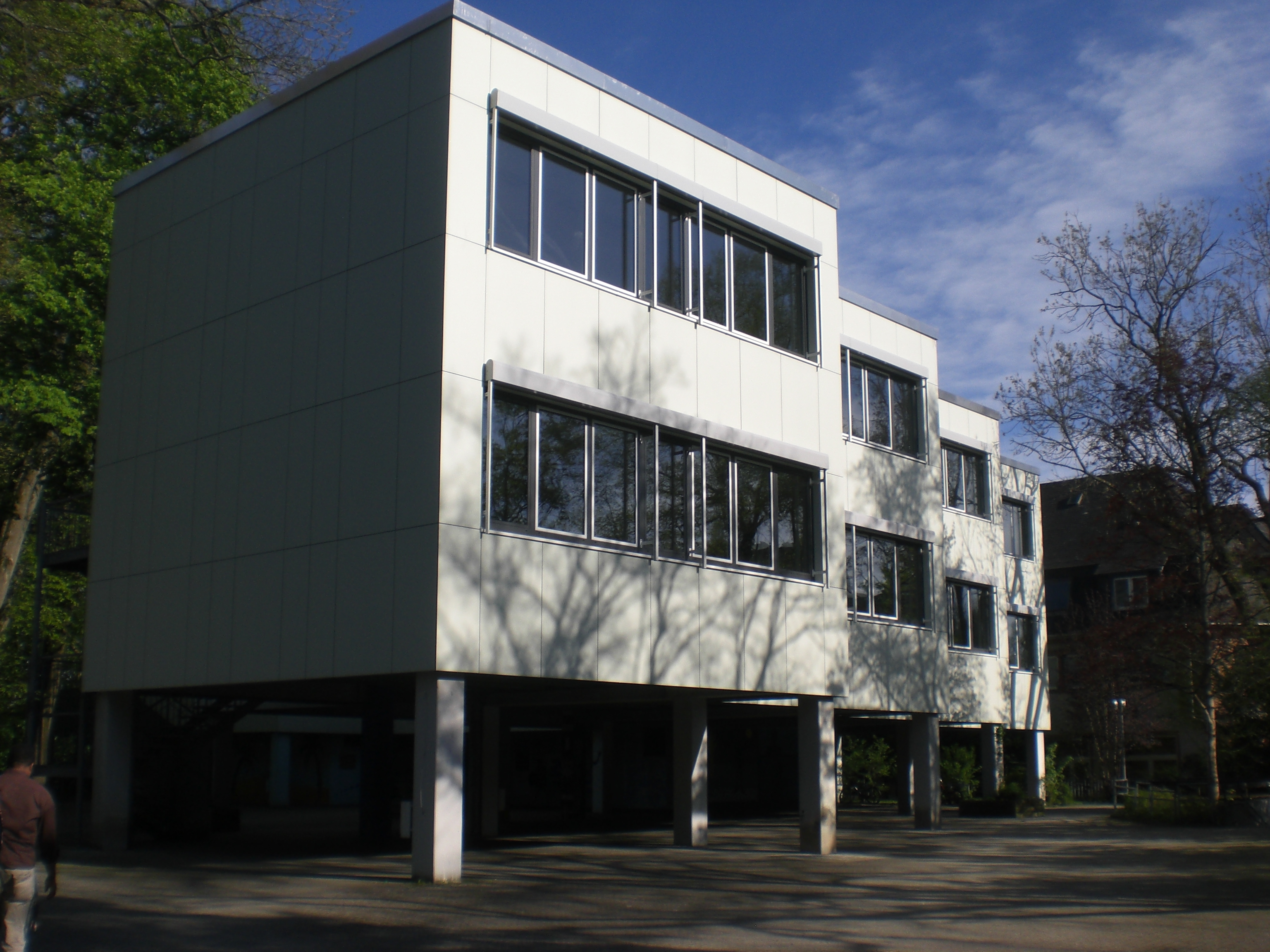 The newer building.